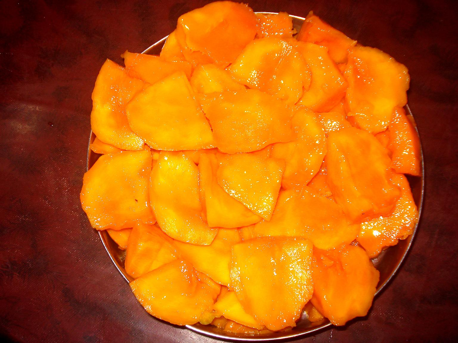 kuttiyaattur Mango pieces, ready to eat. It is very sweet and tasty. Using mangoes we make juices, squashes and jam.